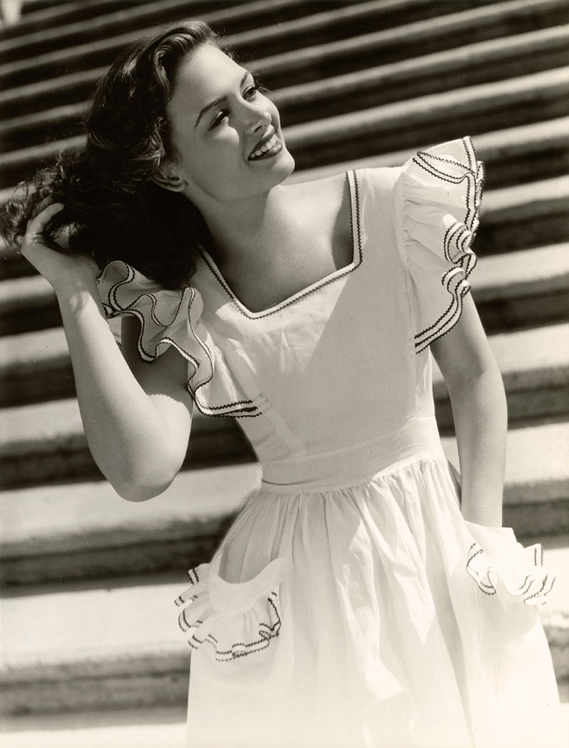 Studio portrait photo of Donna Reed taken for promotional use in See Here, Private Hargrove.